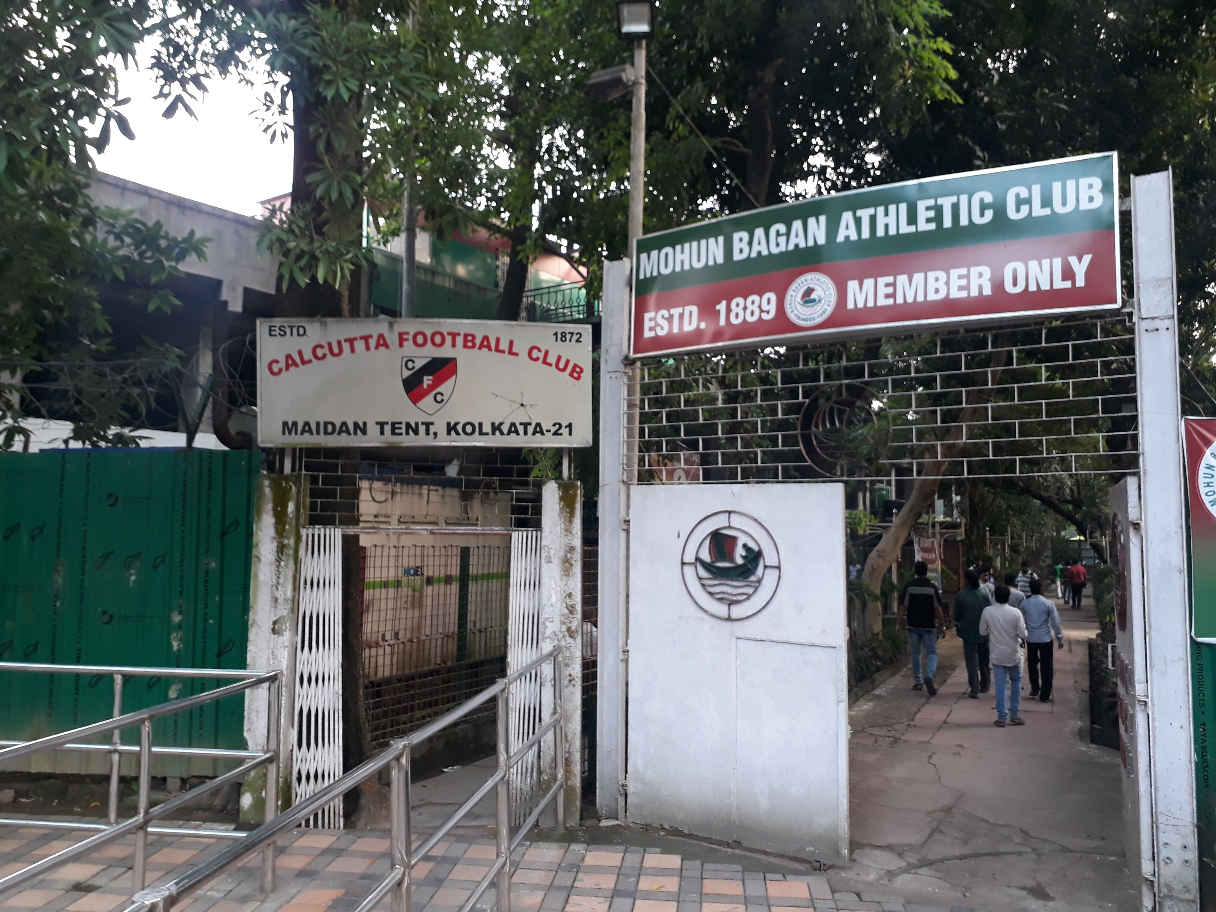 Mohun Bagan Athletic Club, front gate. It is an oldest football and sports clubs in Asia.